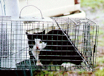 The role of feral cats as predators to Hawaiian forest birds is poorly known, but results of several studies suggest that they may be a major predator in Hawaiian forest habitats. Source Image: Page: Commons:Category:Felis silvestris catus Commons:Category:Cages